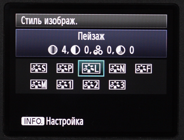 Canon EOS 7D, Picture Style selection.